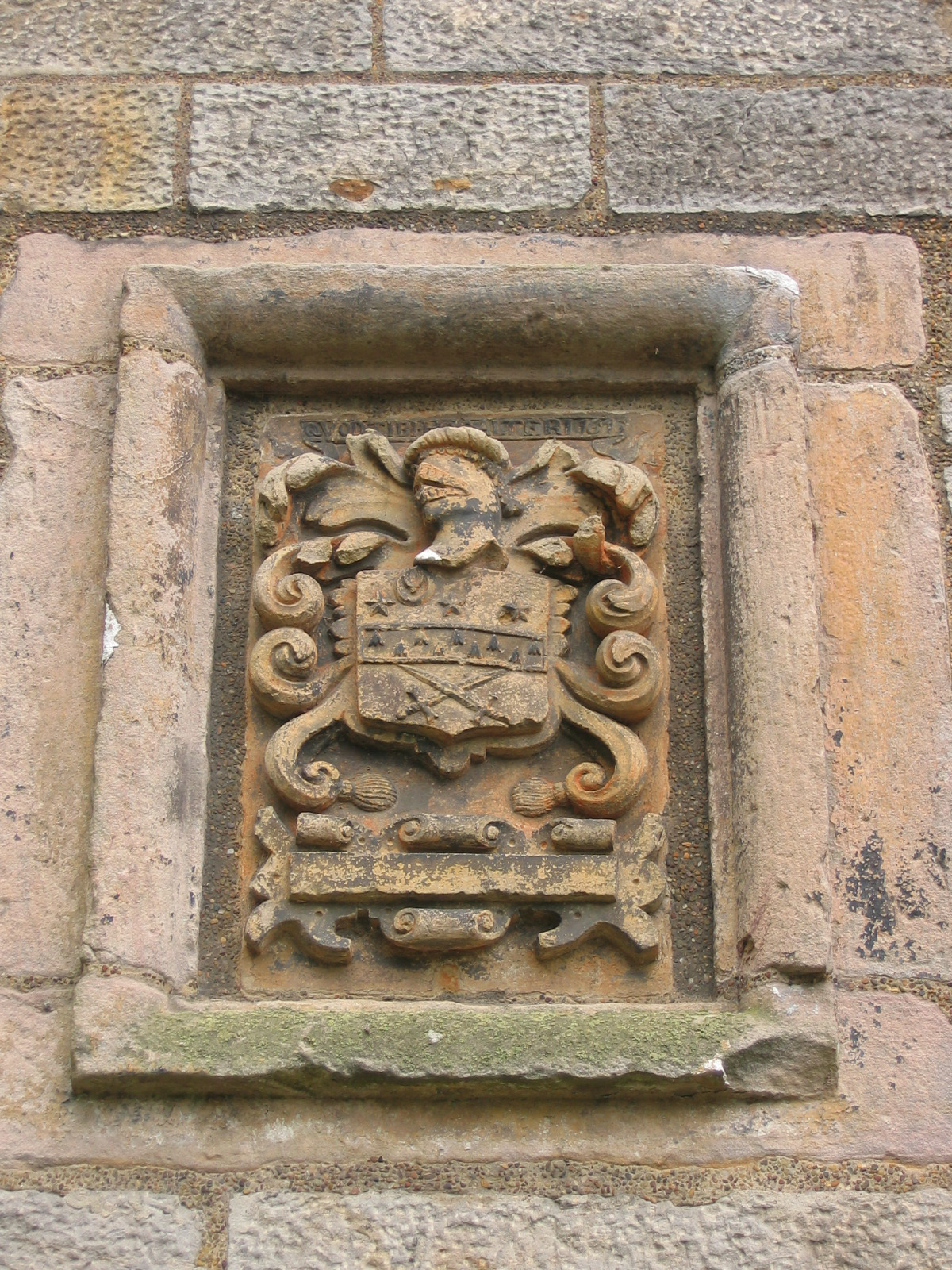 Lauriston Castle, Edinburgh. Coat of Arms carved on north facade.